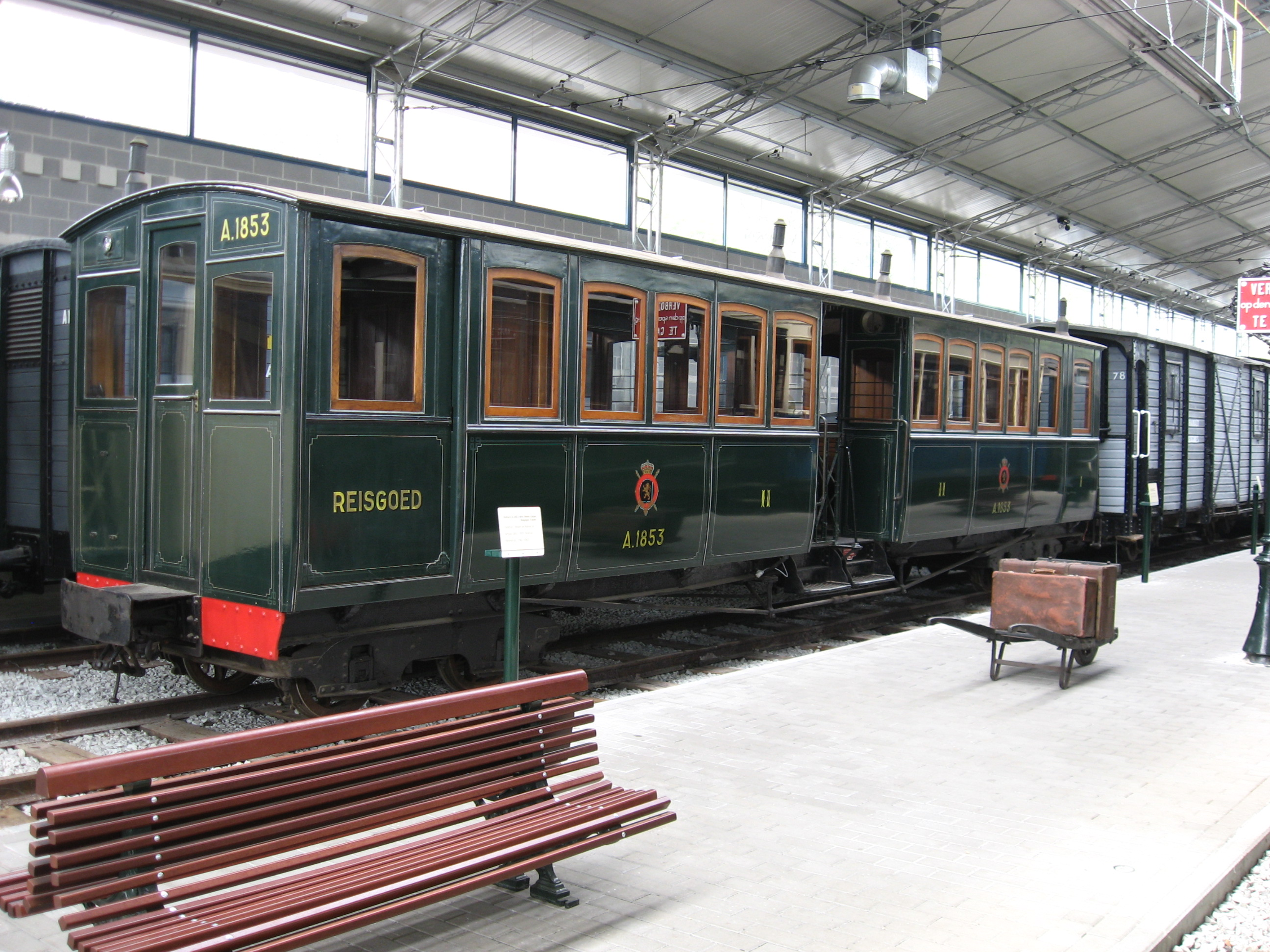 These where the first vicinal steamcars on primitive bogies. They had a first class, a second class and a bagage compartment. Build in 1891